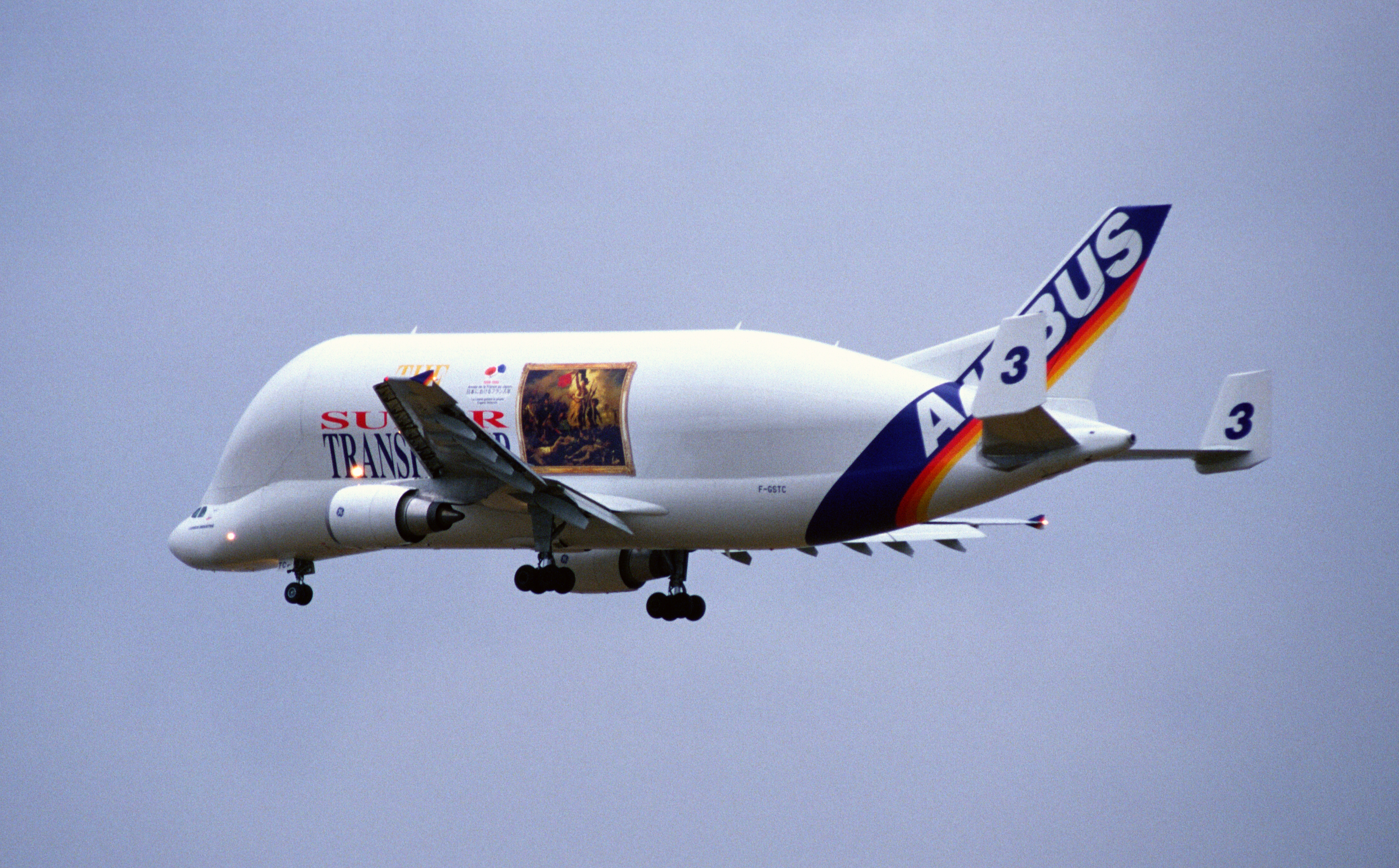 Airbus Transport International A300-608ST Beluga (F) (F-GSTC/765/3)